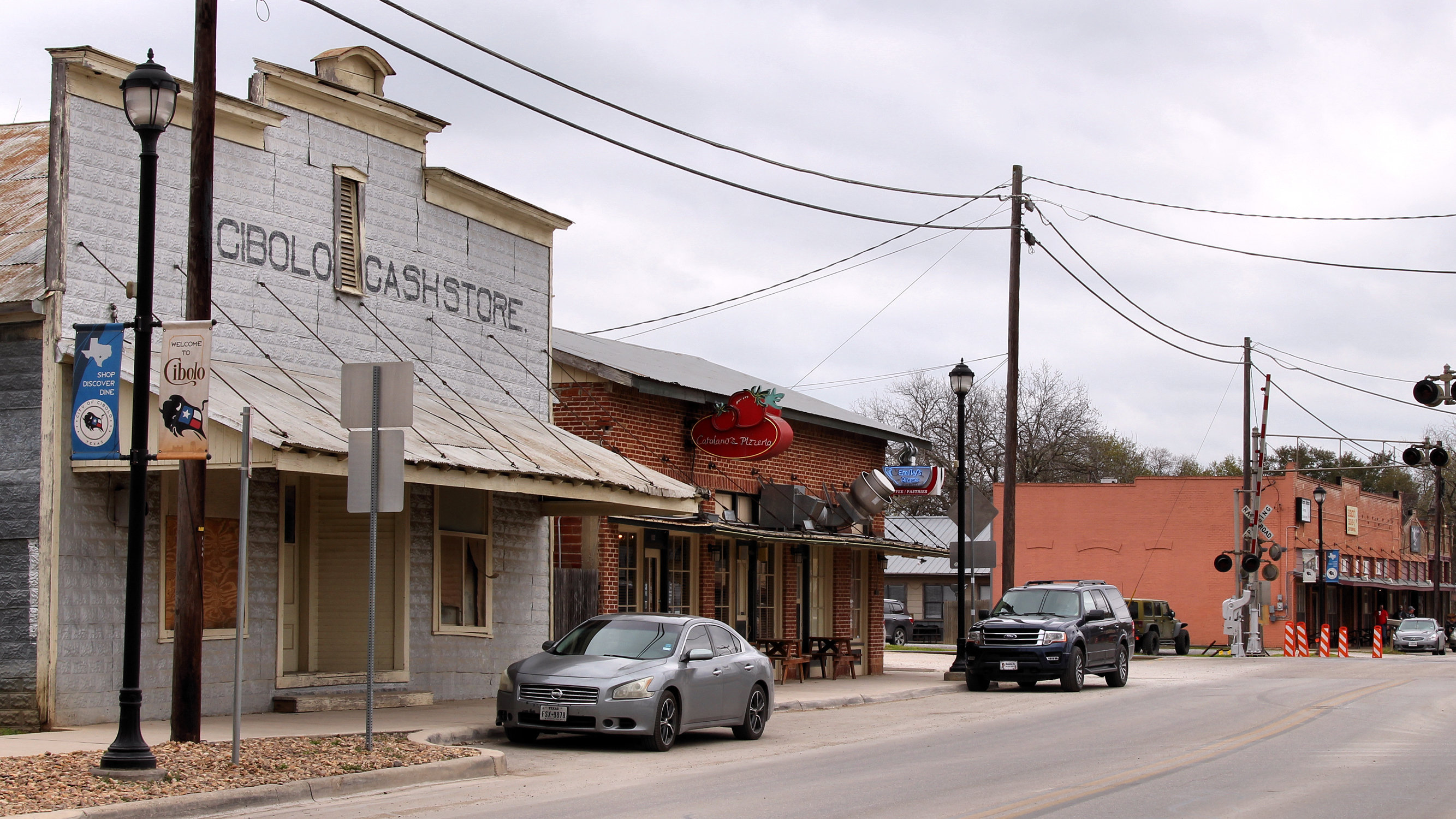 North Main Street through the old commercial district of Cibolo, Texas, United States.